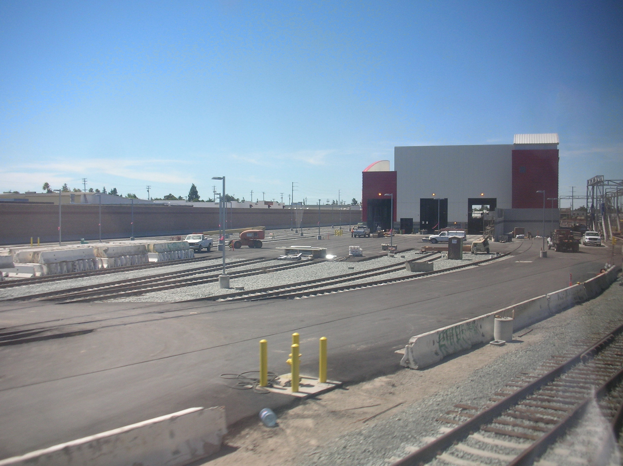 The Caltrain Centralized Equipment Maintenance and Operations Facility and train yard under construction as seen from the second level of a southbound limited-stop train.